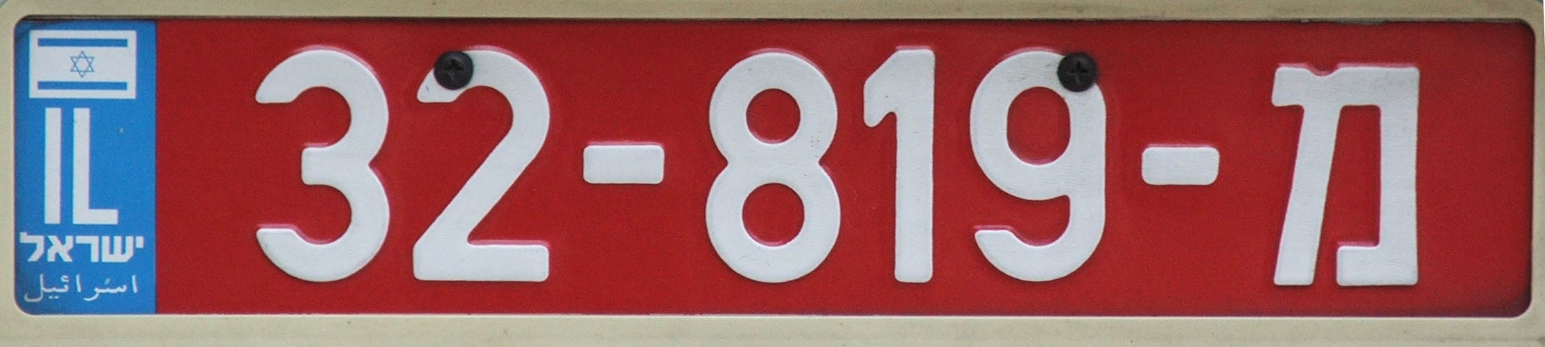 Police vehicle licence plate from Israel as seen in 2008.